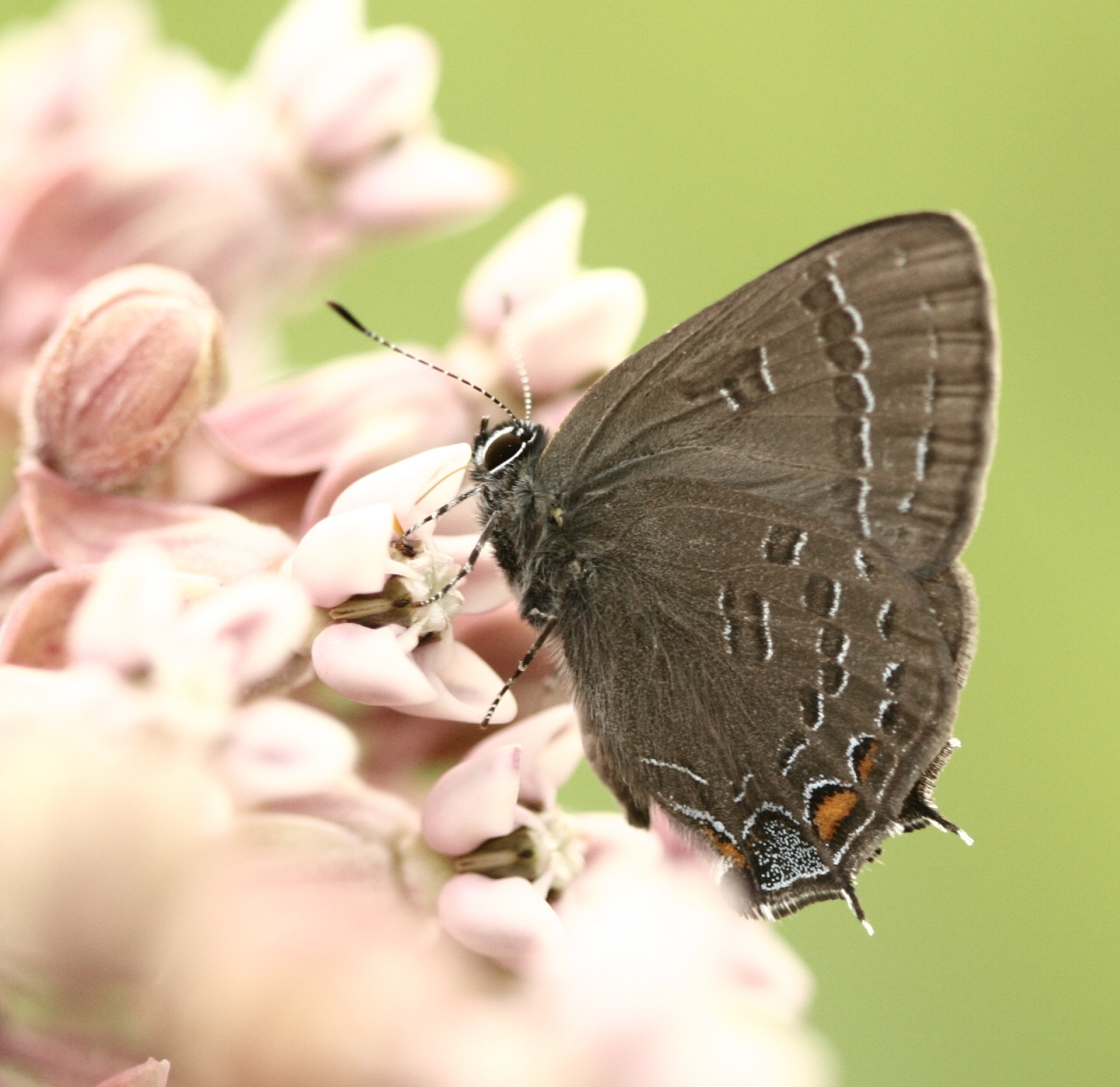 A Banded Hairstreak (Satyrium calanus) on Common Milkweed (Asclepias syriaca)